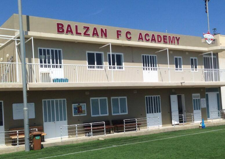 BFC Clubhouse